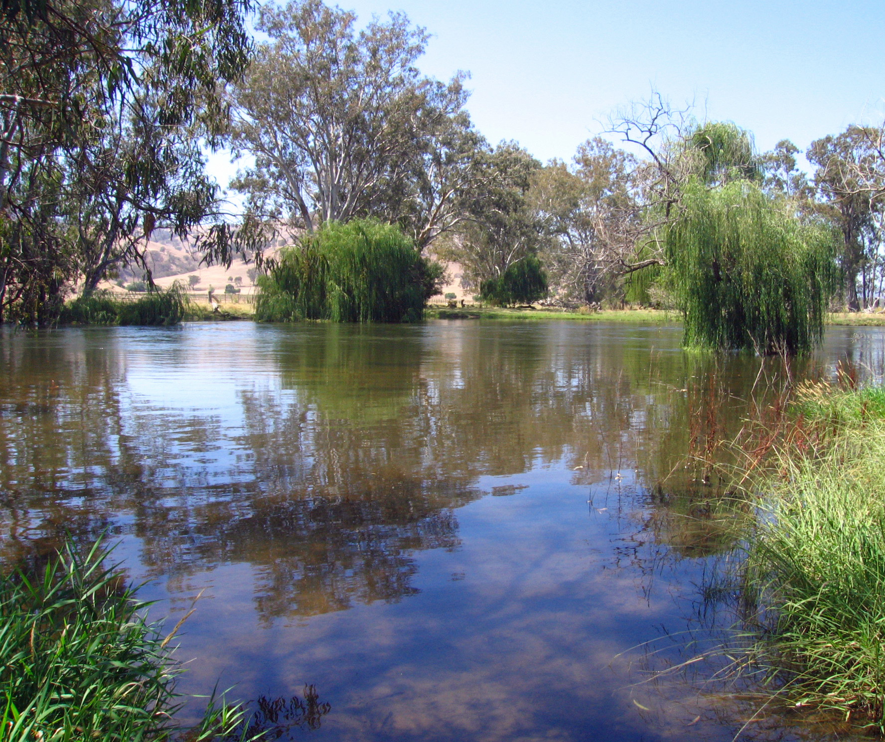 Drought striken dairy country - VIctoria Australia. The river is flowing because of a release from the upstream Dartmouth Dam.